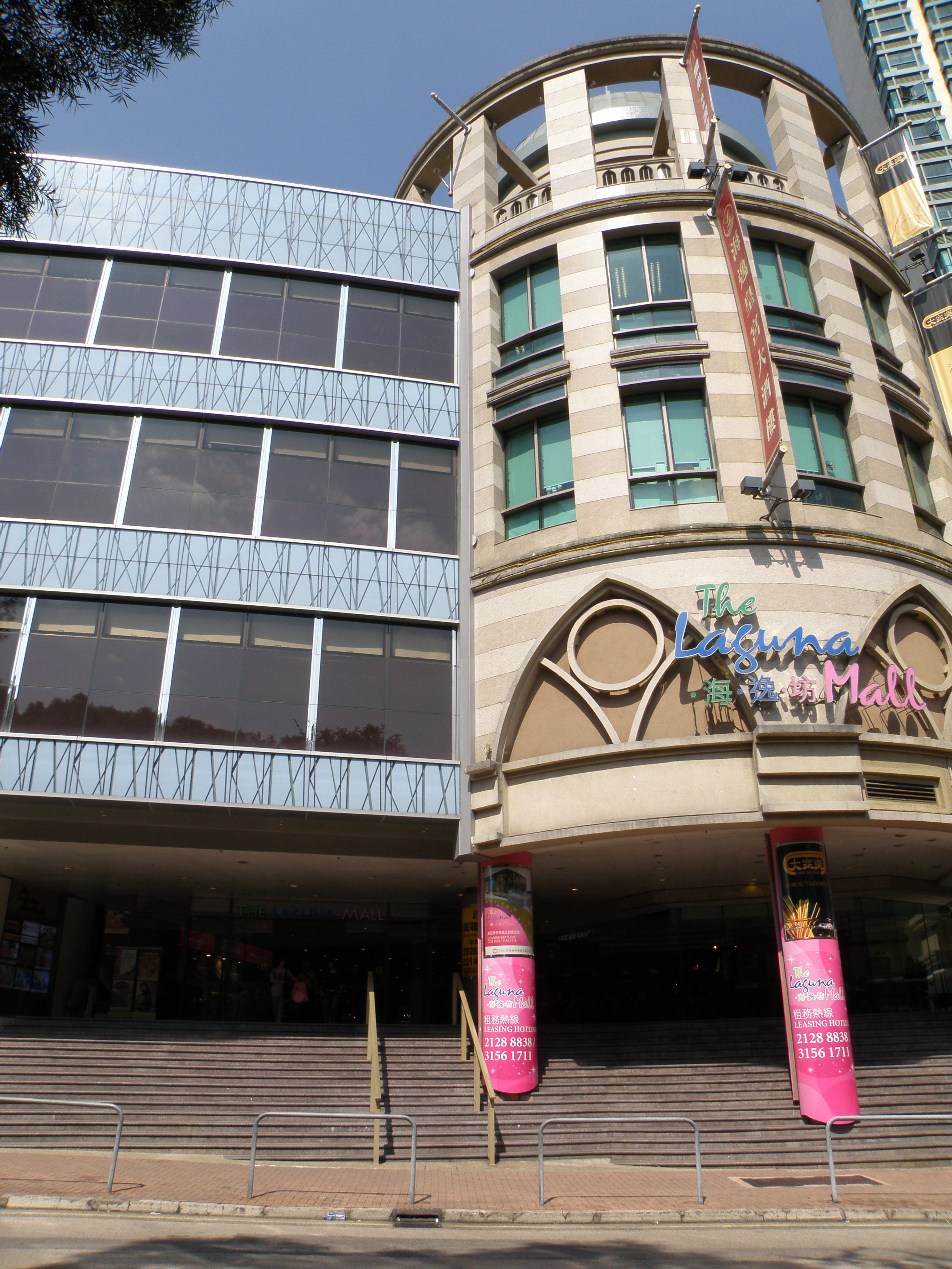 The Laguna Mall in Hung Hom, Hong Kong.